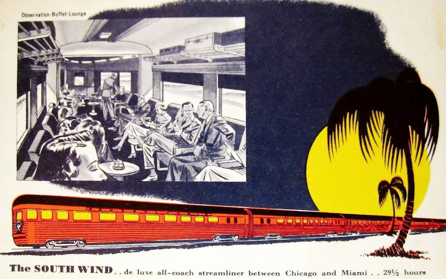 Postcard ad for The South Wind. The train traveled between Chicago and Florida via the Pennsylvania Railroad, the Louisville and Nashville Railroad, the Atlantic Coast Line Railroad and the Florida East Coast Railway from 1940 to 1971.